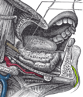 Edit of Gray1024.png cropped and highlighted mental space in green